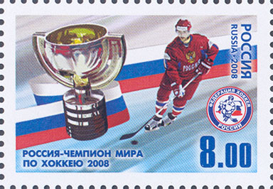 Stamps of Russia. Russia is the world hockey champion - 2008, 2008